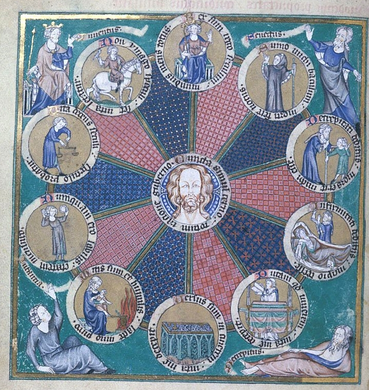 Miniatures of the stages of life, in roundels around the head of Christ at the centre, and figures of Youth, Age, Infancy, and Decrepitude in the corners.